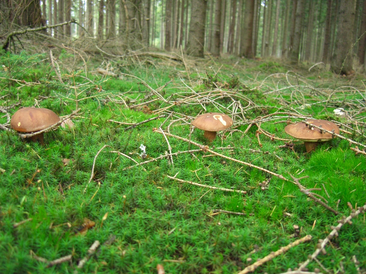 Three boletus badius in the woods